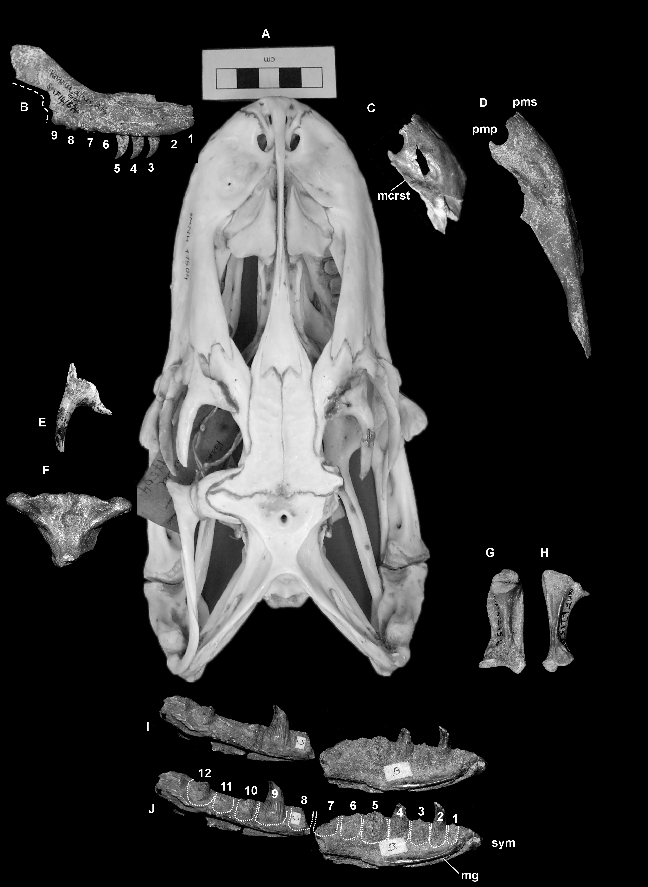 Varanus komodoensis (Pliocene, Australia).A. Modern V. komodoensis skull in dorsal view (NNM 17504). B. QMF 874, right maxilla in lateral view. C. QMF 42105, partial right maxilla in dorsal view. D. QMF 42105, right maxilla in dorsal view. E. QMF 25392, complete left supraorbital in dorsal view. F. QMF 53956, partial parietal in dorsal view. G–H. QMF 42156, right quadrate in anterior and lateral views. I–J. QMF 870+871, partial left dentary in lingual view, J illustrating the tooth loci. Abbreviations: mcrst, dorsal maxillary crest; pmp, premaxillary-maxillary aperture; pms, premaxilla-maxilla suture; sym, dentary symphysis; mg, Meckalian groove. Dashed line represents broken edge of maxilla. Scale bar = 5 cm.